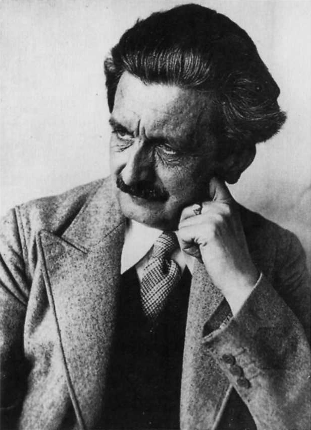 Photo postcard of Adolf Brand, ca. 1930.